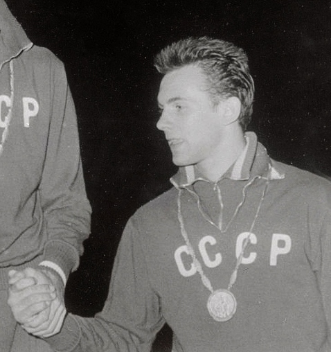 1960 Press Photo Valeriy Brumel (Rome Olympics, high jump podium)